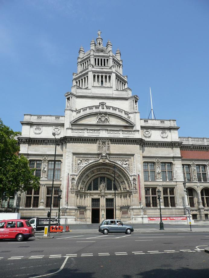 Victoria and Albert museum